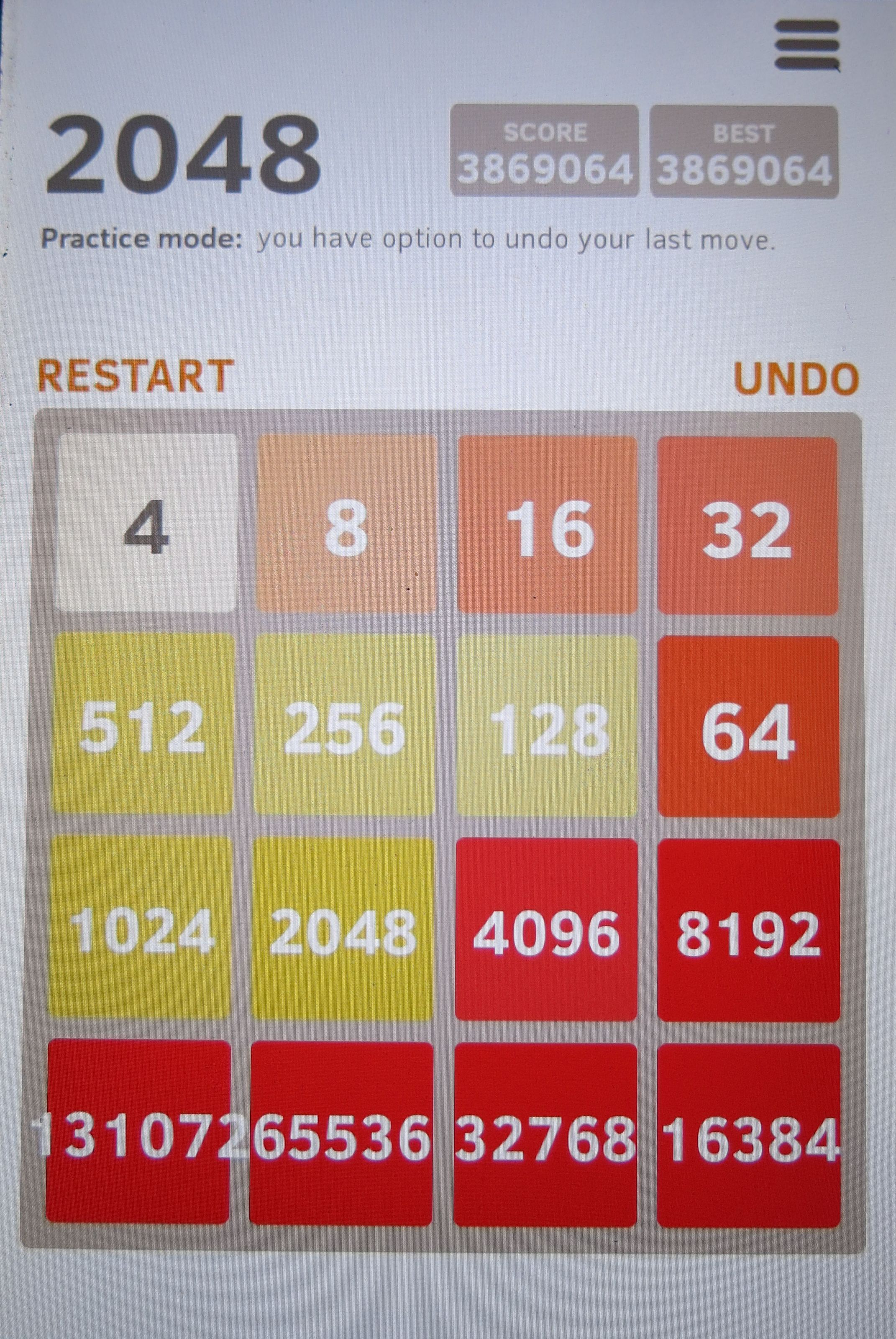 Final Position in Game 2048